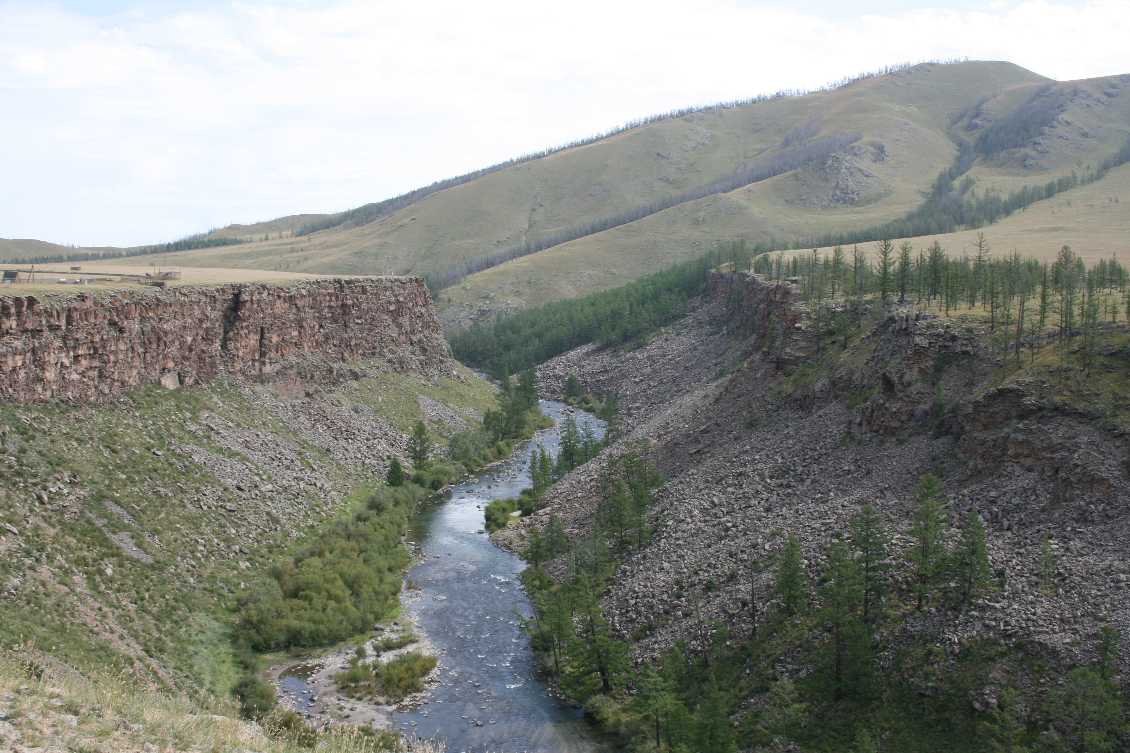 Canyon of the Chuluut river, some dozen km east of Tariat sum center